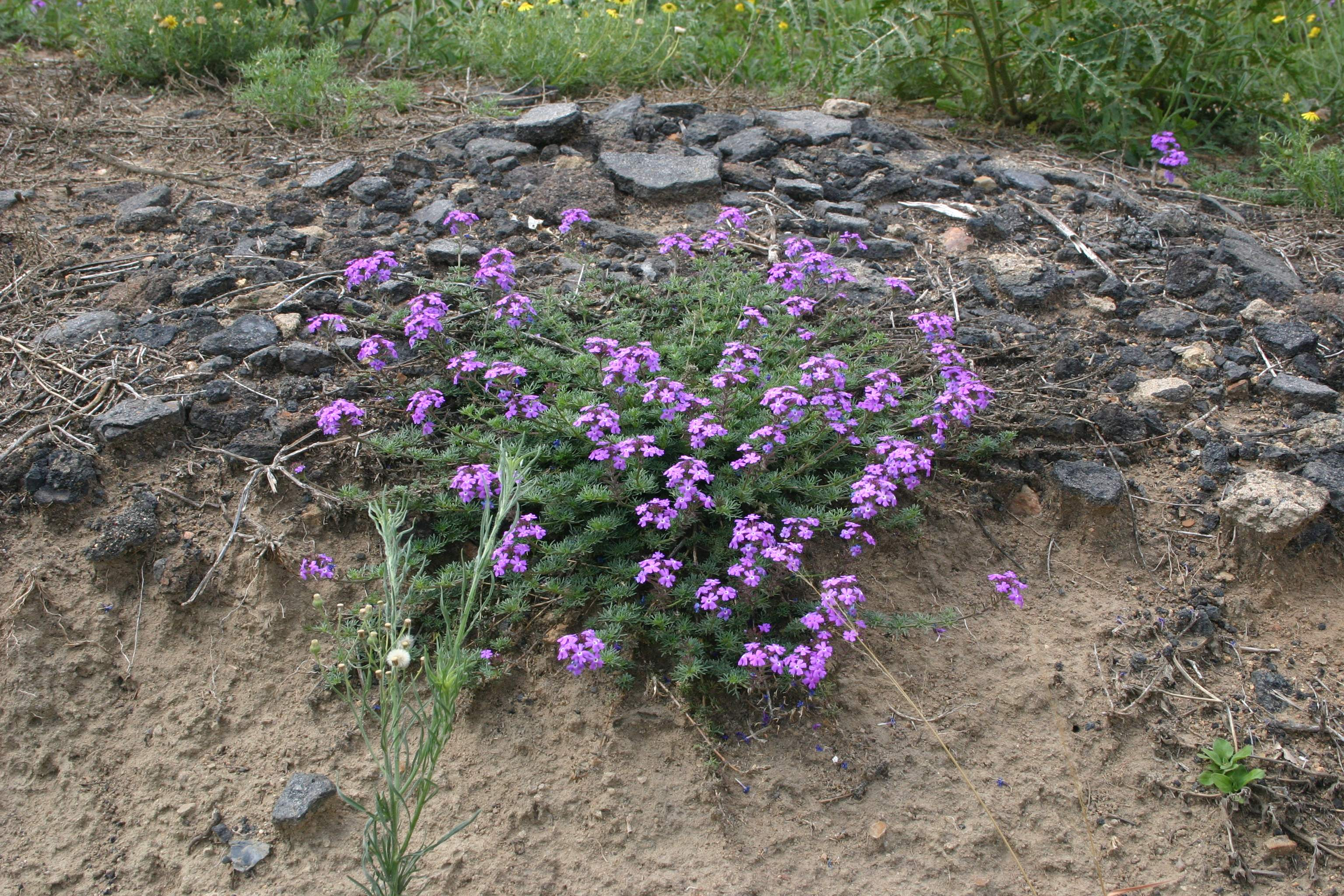 Glandularia aristigera (S.Moore) Tronc. = Verbena tenuisecta Briq. , Honeydew, Johannesburg - In left foreground Conyza bonariensis (L.) Cronquist